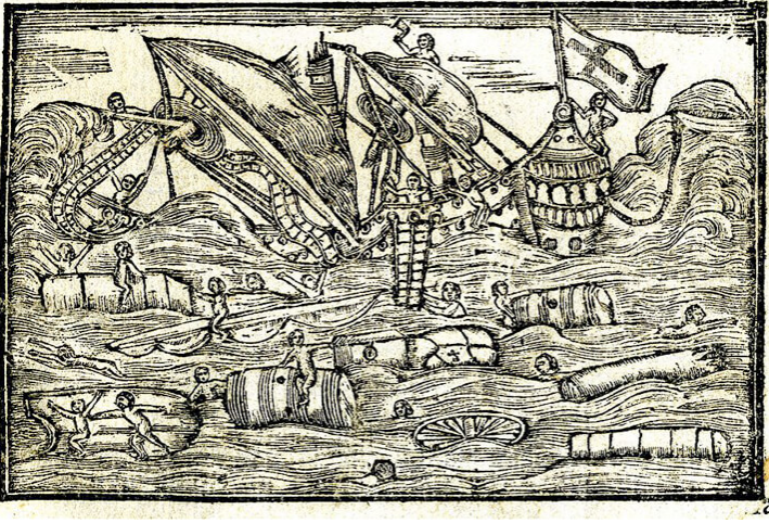 the sinking of the portuguese galeon São João in 1552. Published in 1735 and depicts the sinking of the galeon São João from 1552 in South Africa